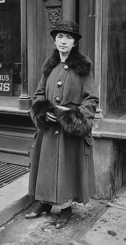 Margaret Sanger during her Brownsville clinic trial at the King's County Court of Special Sessions in New York City, New York, USA, on January 30, 1917.